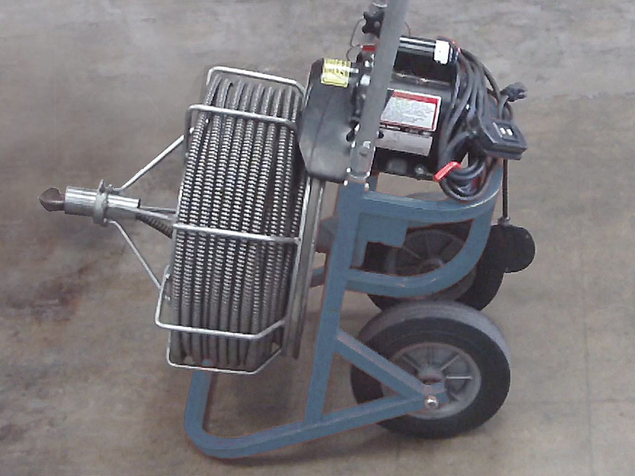 Electric Drain Cleaner, 100 Ft.